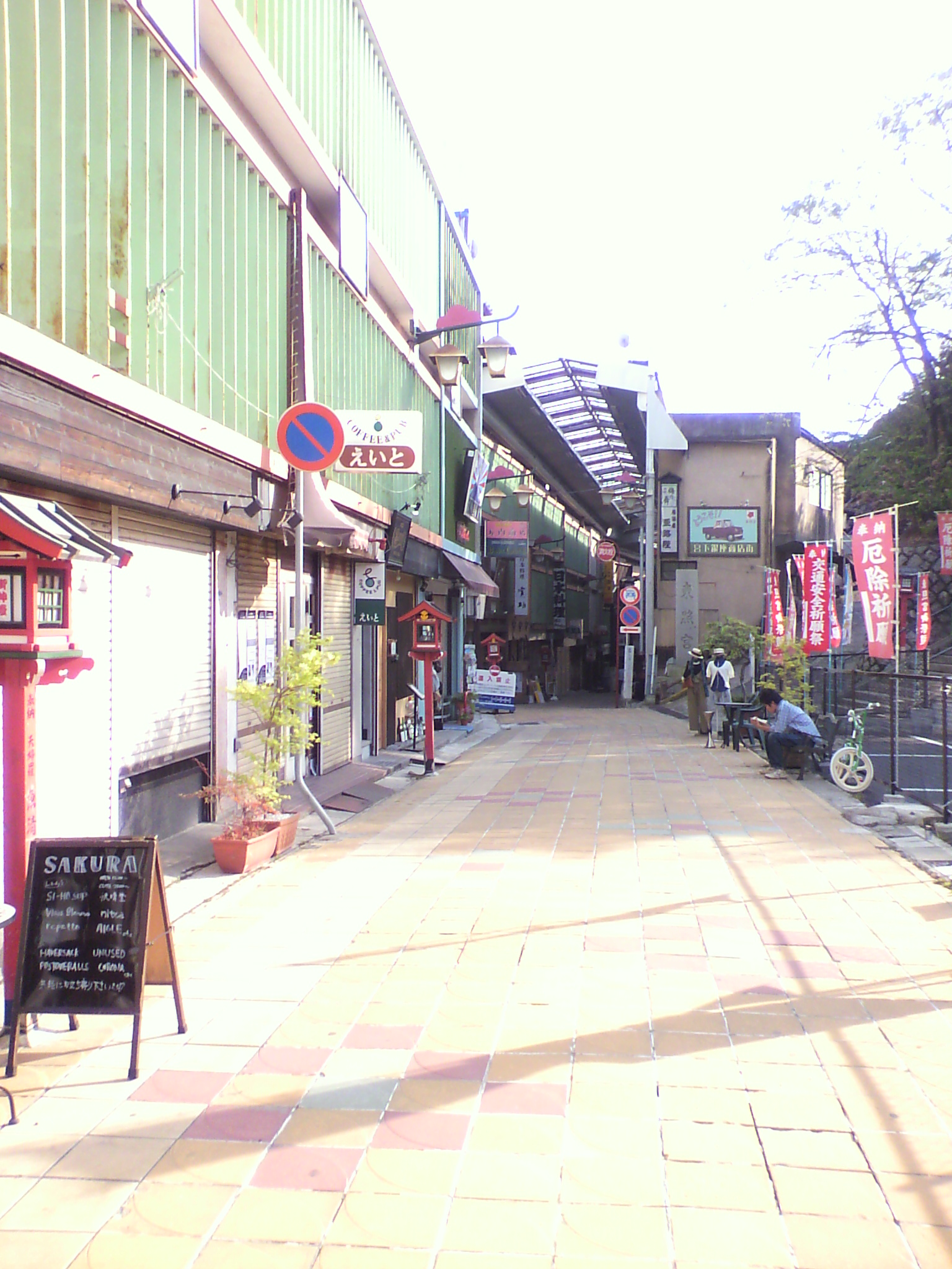 This is a Shōtengai which is located in Mito, Ibaraki, Japan.